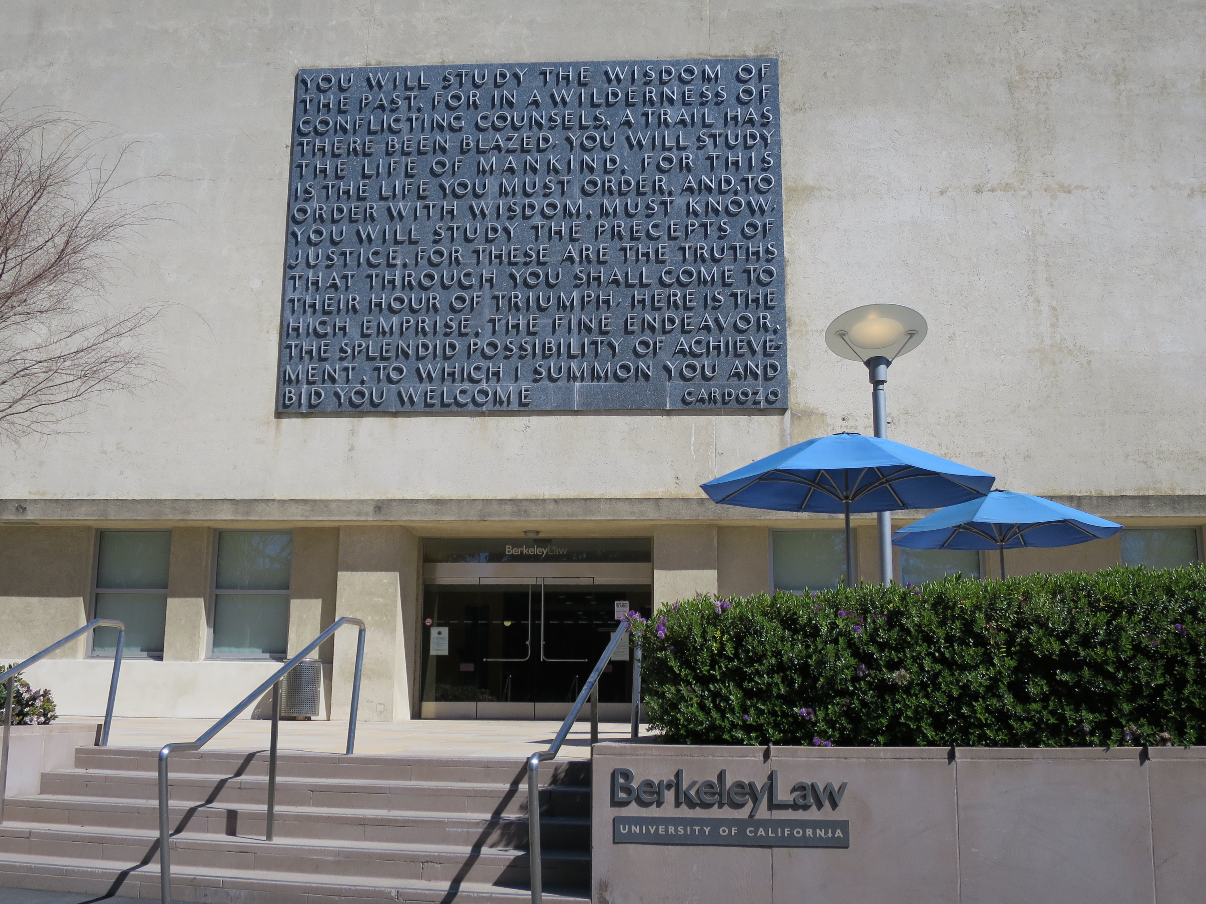 Boalt Hall, University of California Berkeley Law School.